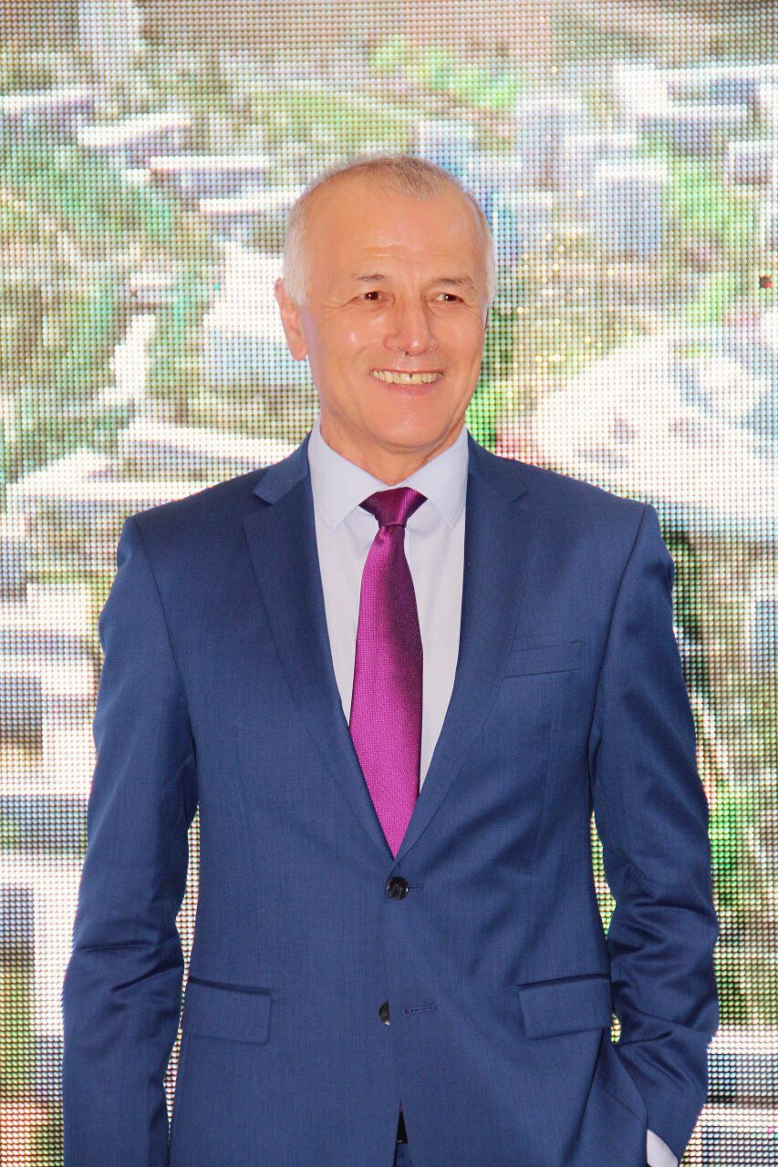 A photograph of a person